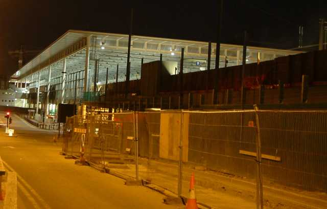 This is a photo of the new St Pancras railway station in London, situated immediately to the north of the Victorian building; the latter will reopen in 2007.